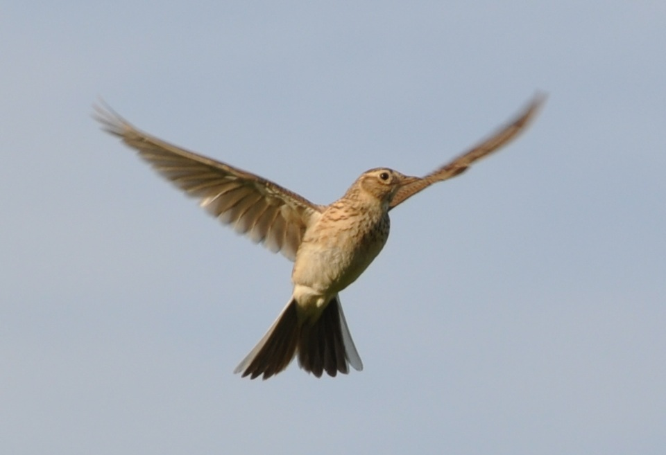 Flying Skylark (Alauda arvensis) in Frankfurt, Germany